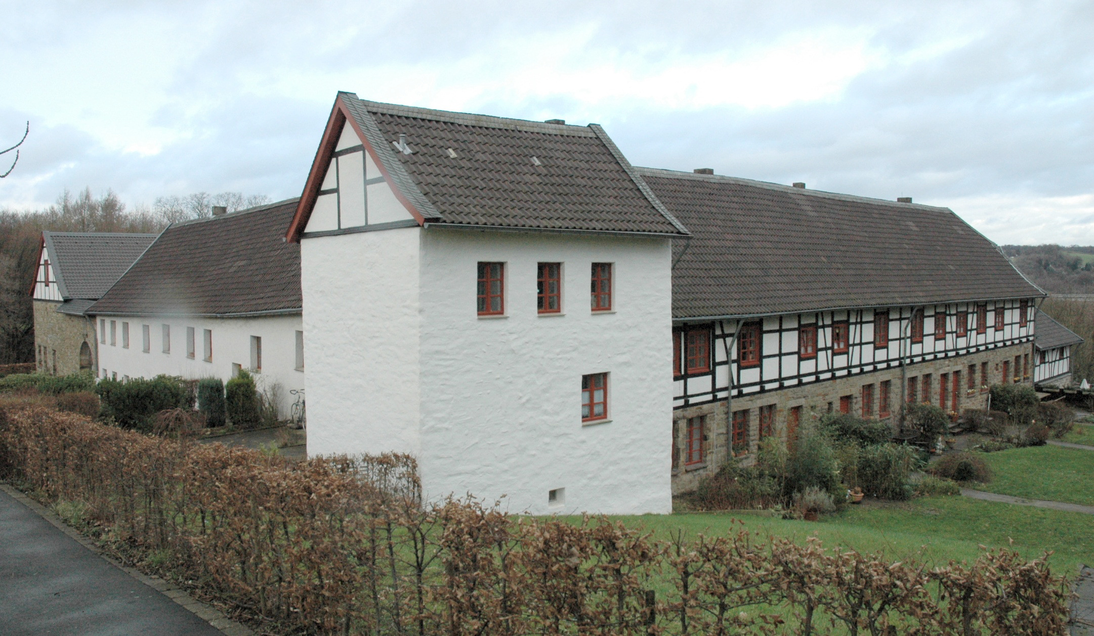 Haus Heisingen, southern aspect